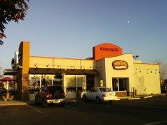 Goodtimes/Taco Johns restaurant in Commerce City, Colorado.